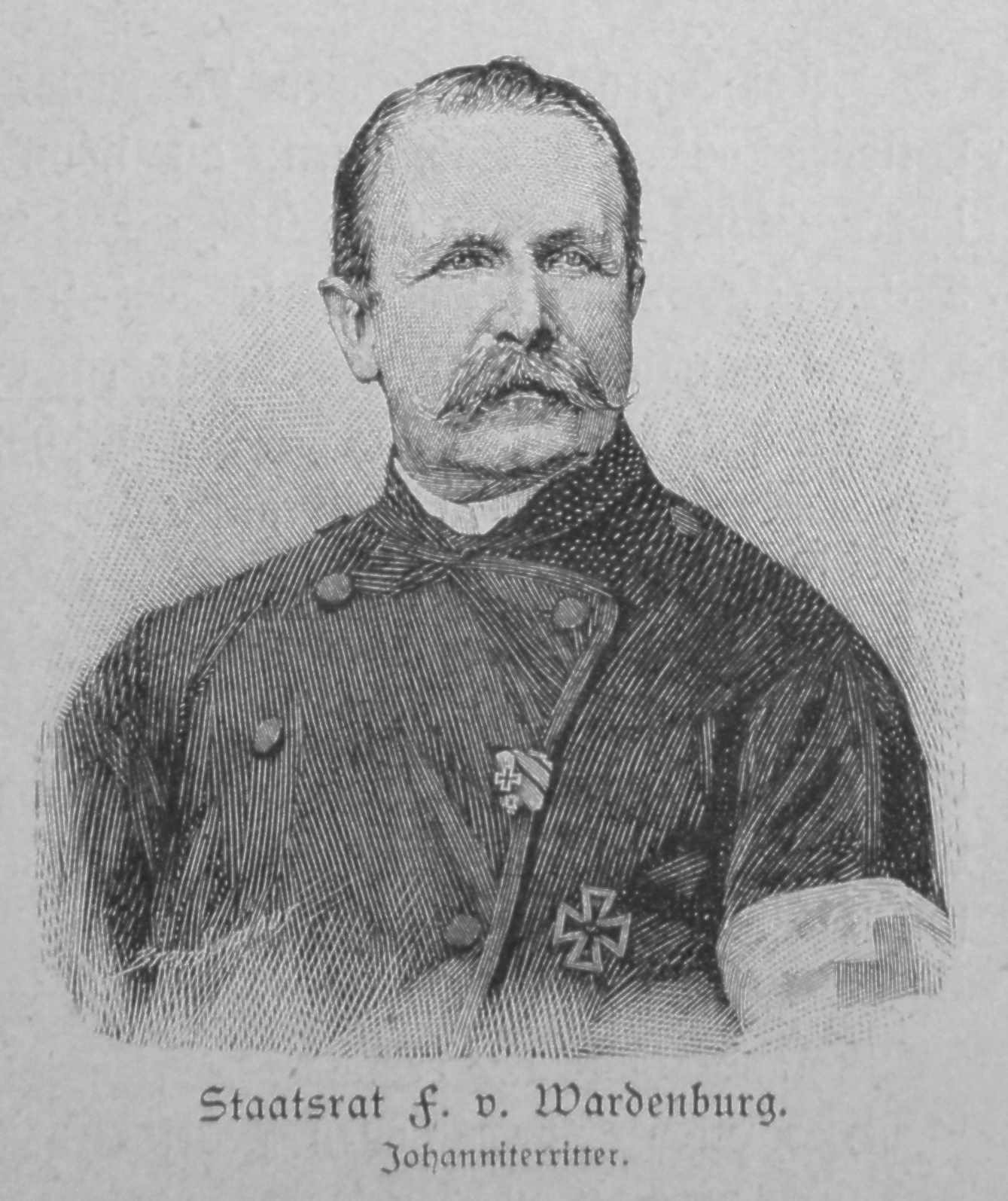 privy council F. von Wardenburg (Knights Hospitallers)